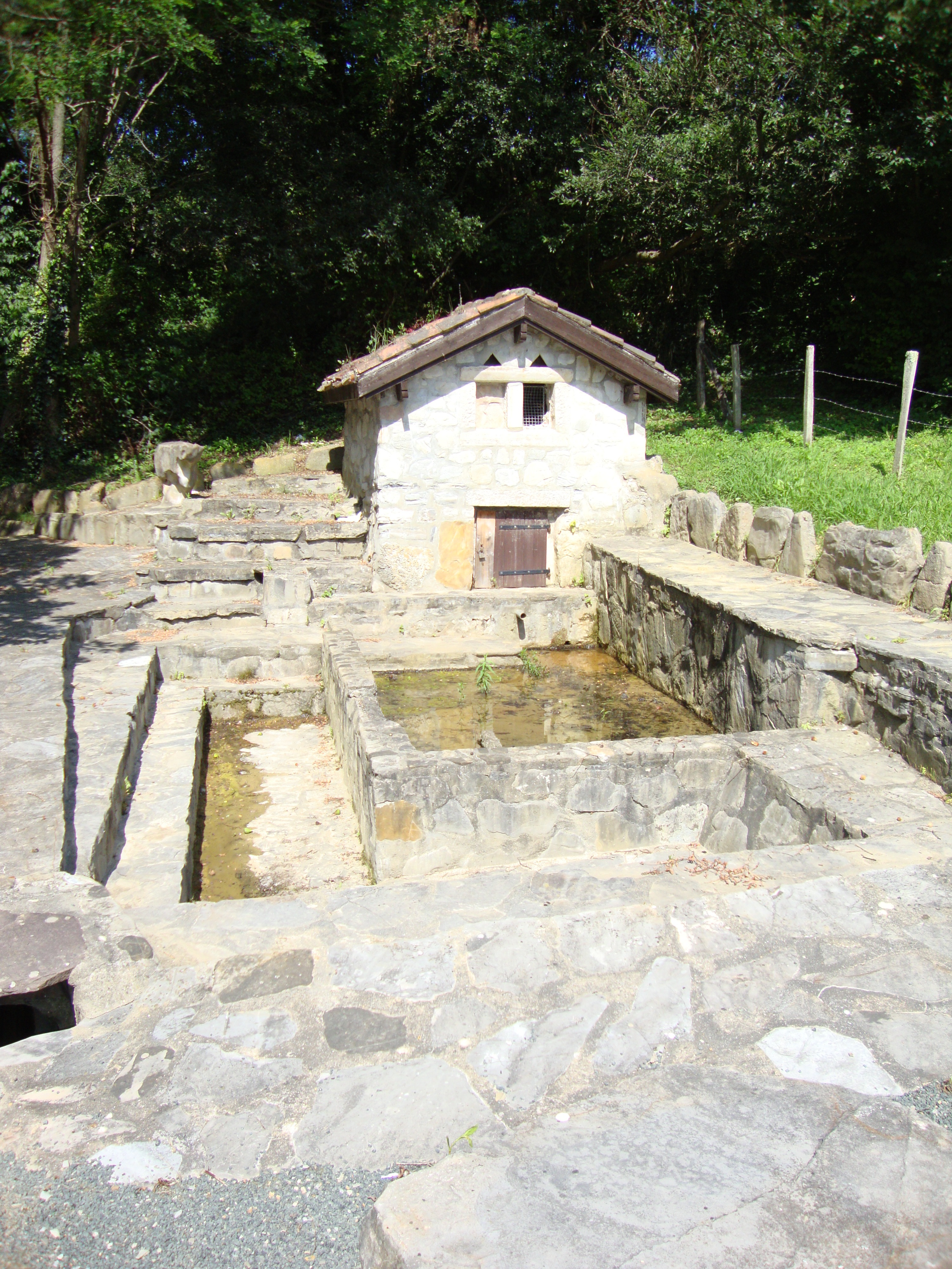 Wash house in Acotz or Akotze